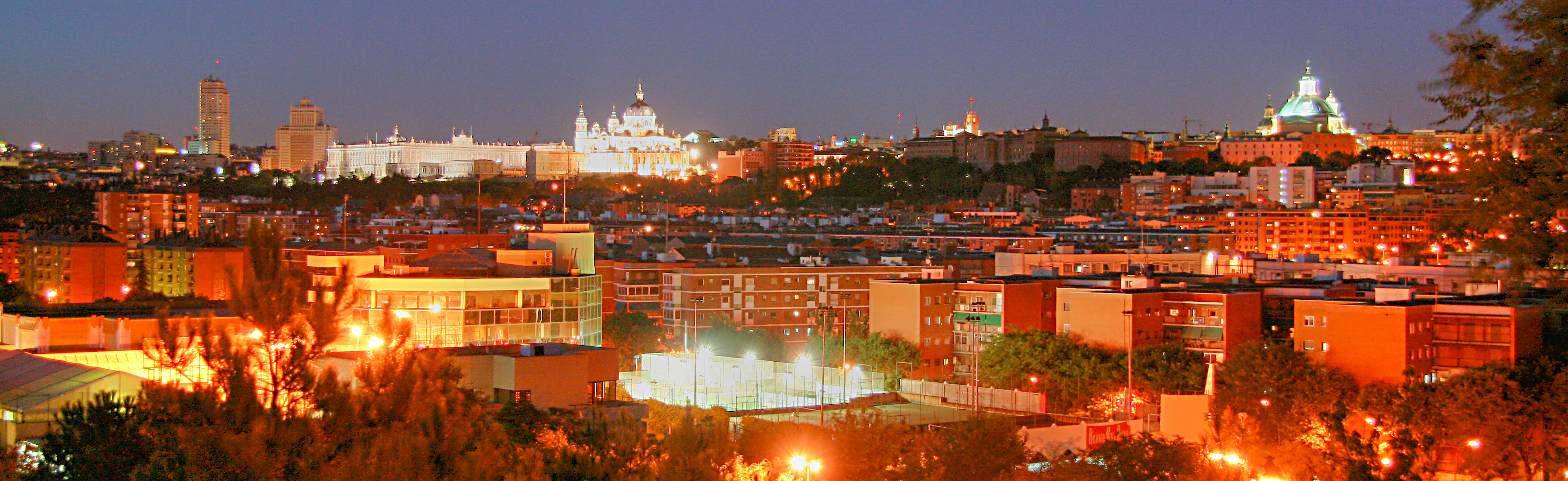 Night view of Madrid (Spain) from the Pradera de San Isidro ("Saint Isidore's meadow", a park).